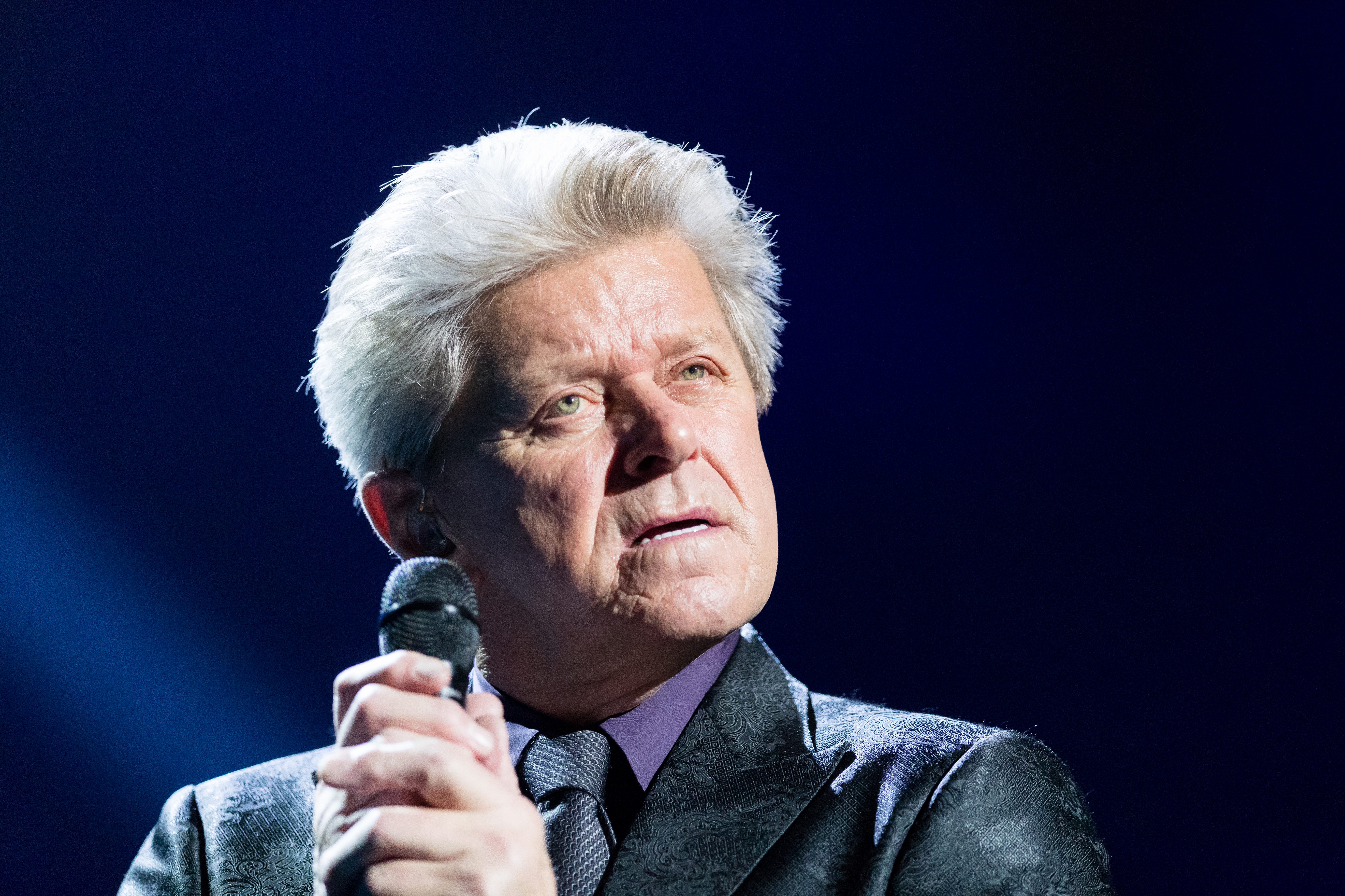 Peter Cetera during Night of the Proms at SAP Arena, Mannheim, Baden-Württemberg, Germany on 2017-12-22, Photo: Sven Mandel